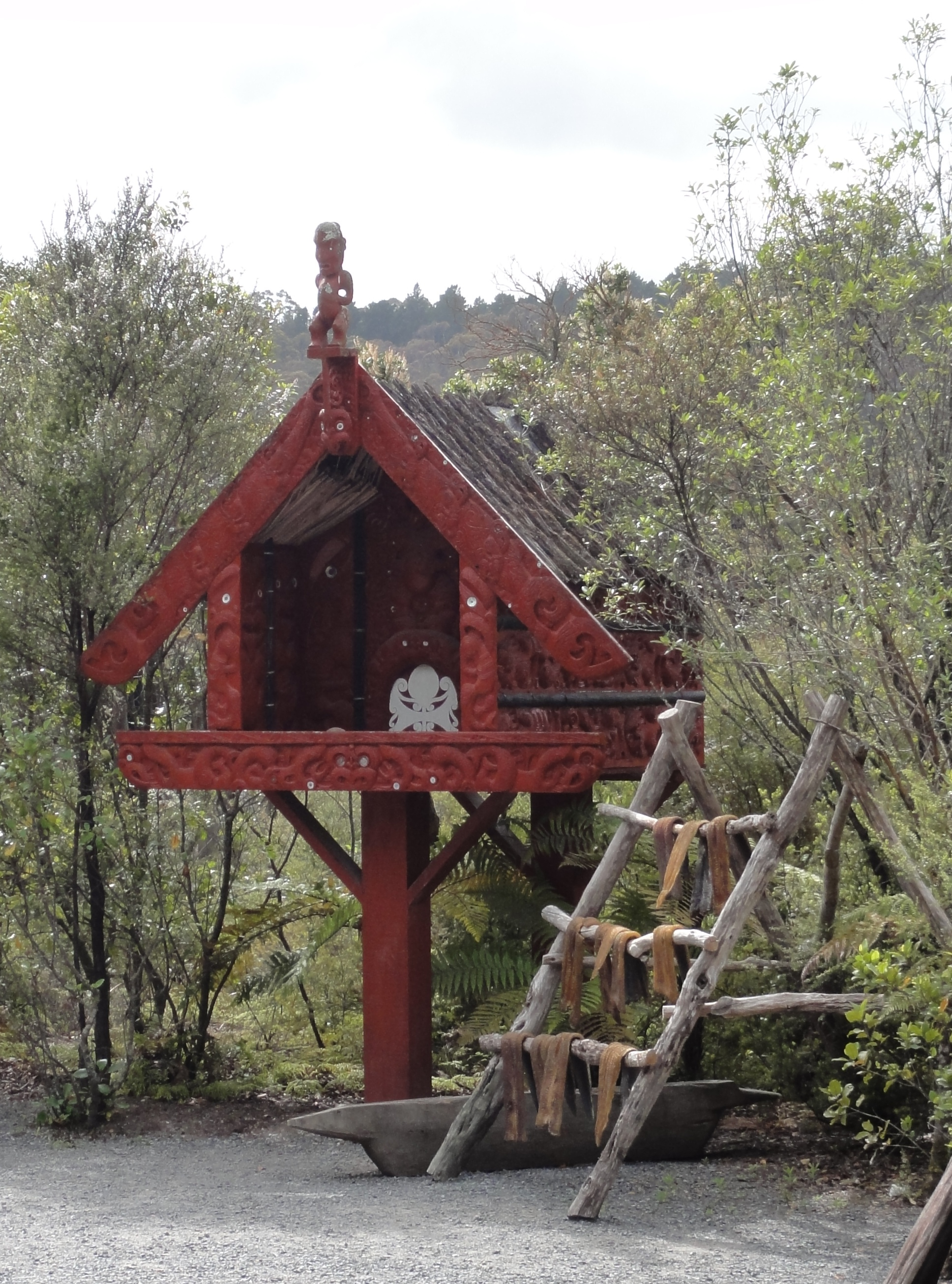 reconstruction of maori storage hut, Whakarewarewa, Rotorua, New Zealand